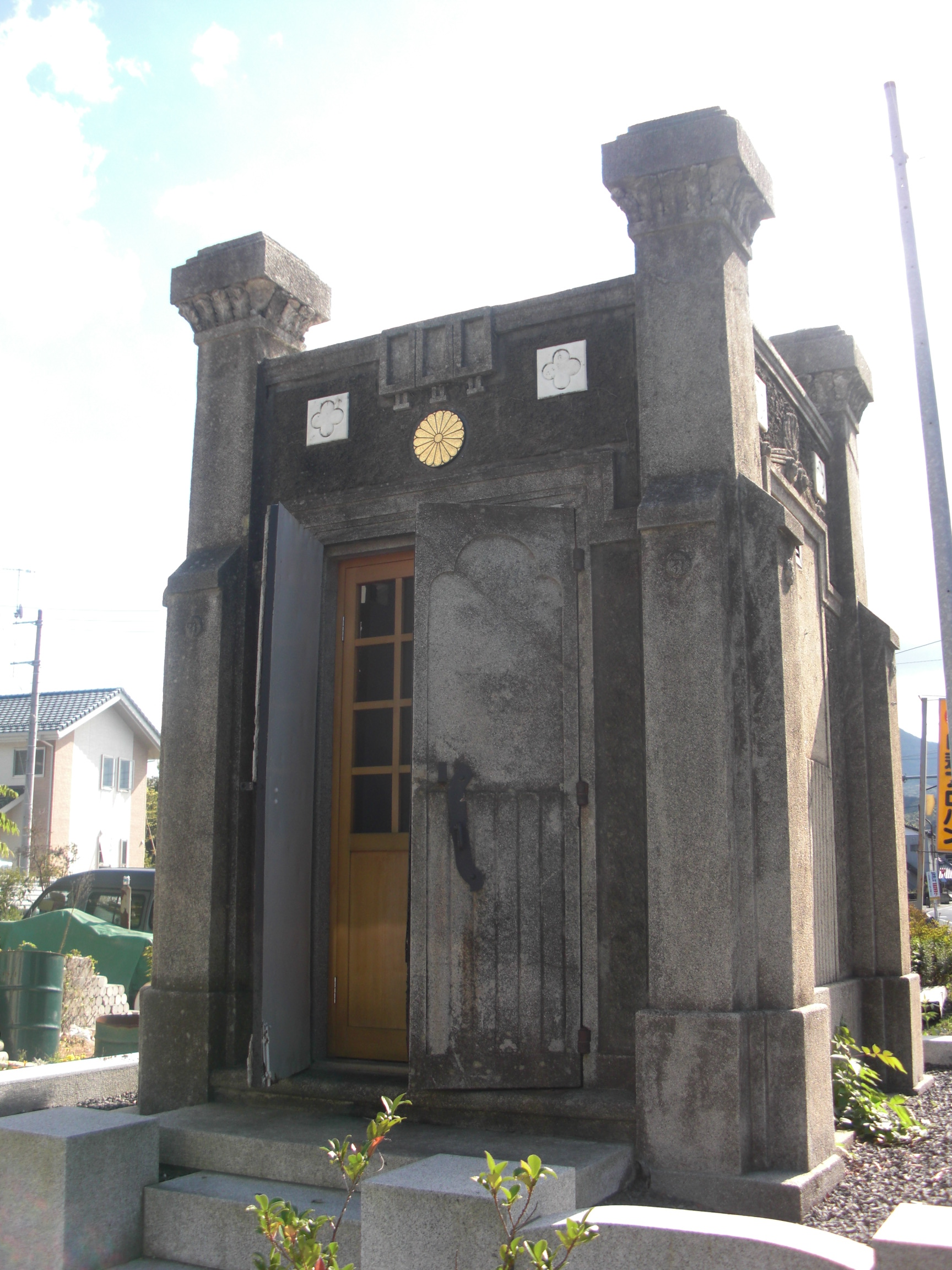 This is a houanden building. Houanden is the building that was used for exhibiting the emperor and his families' photo(Goshin'ei)and Imperial Rescript on Education.